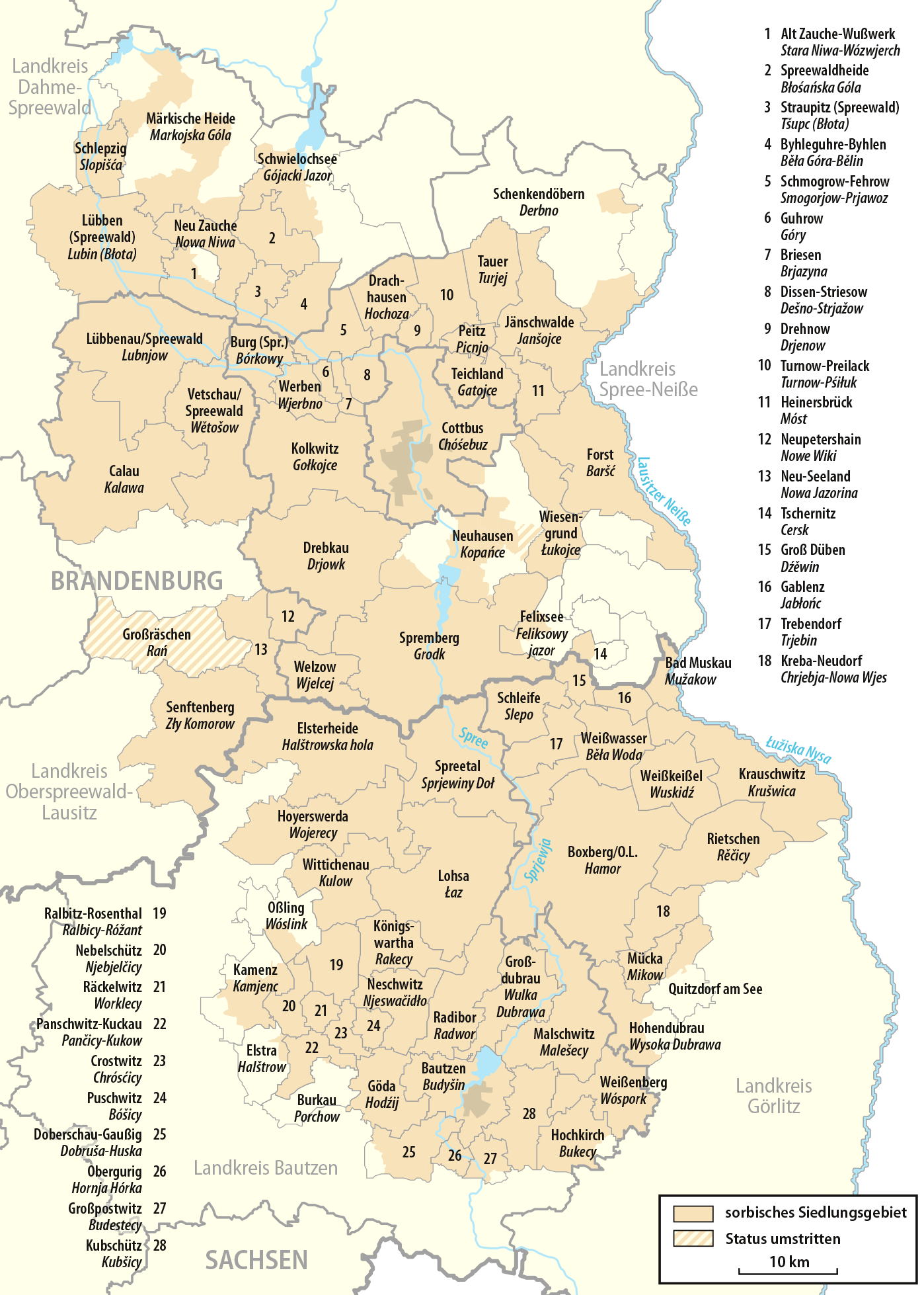 Map of the Sorbian area, German version Hornjoserbsce: Karta Serbskeho sydlenskeho ruma, němska wersija